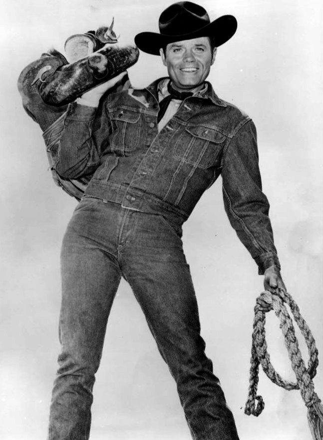 Publicity photo of Jack Lord from the television program Stoney Burke.